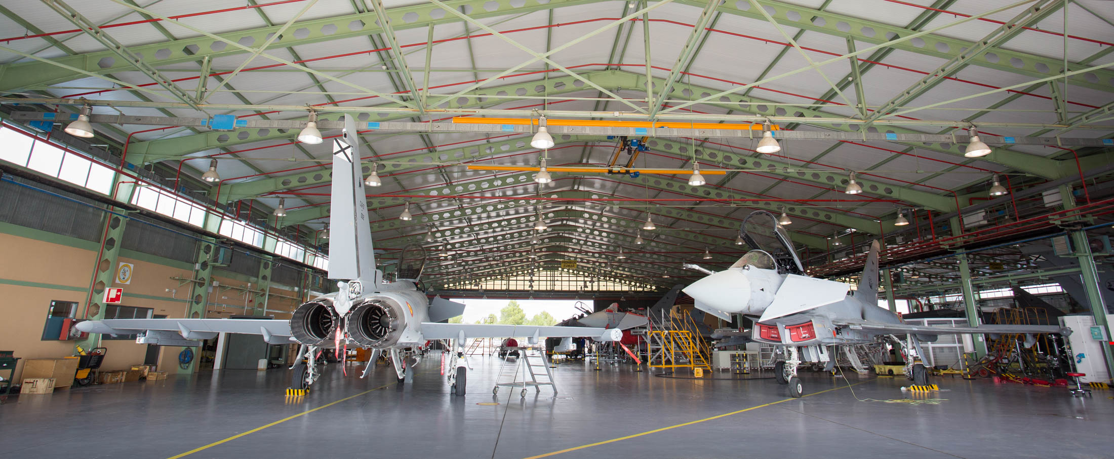 Spanish Eurofighters in the hangar at Albacete Air Force Base, Spain on October 23, 2015 during Trident Juncture 15. (Photo: Cynthia Vernat)